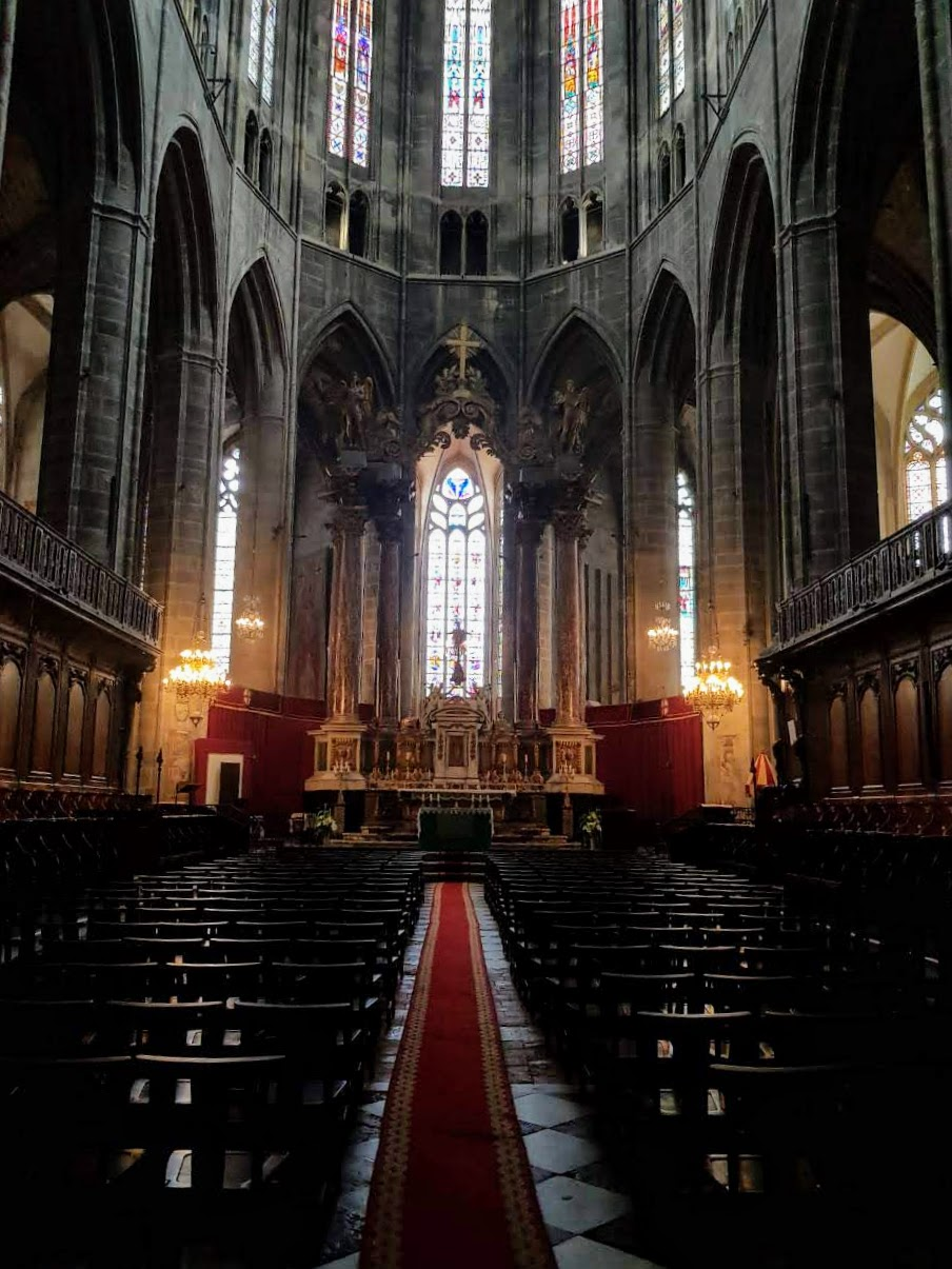 Narbonne Cathedral interior.